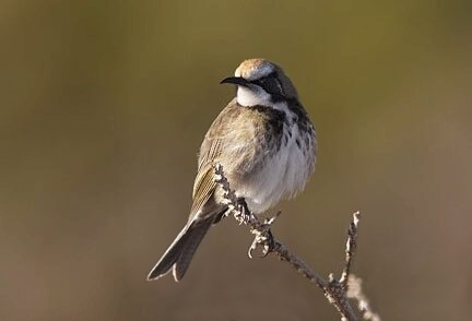 Tawny-crowned Honeyeater Watermark which said "© David Stowe photography" has been removed.